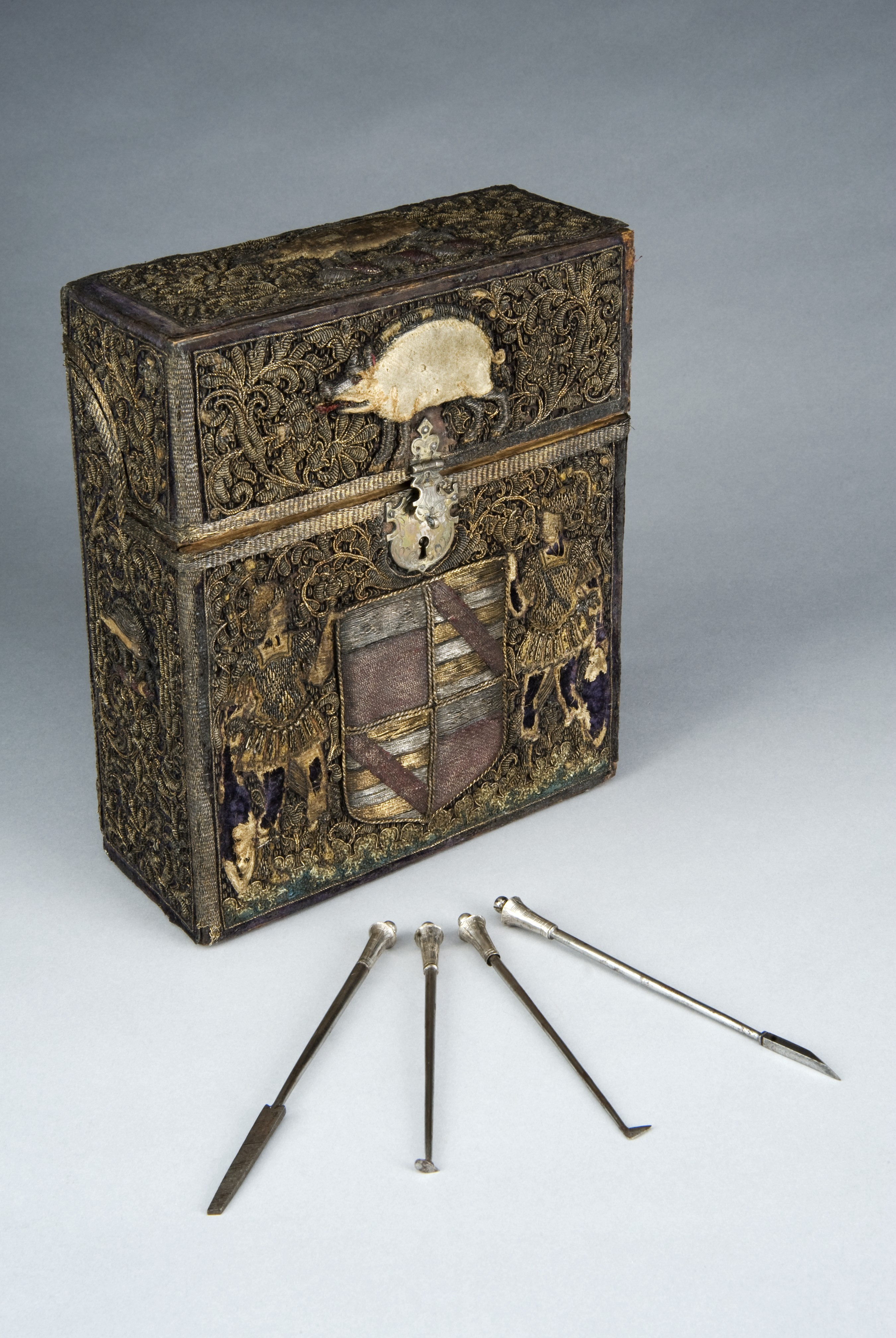 These dental instruments include these four silver descalers used to remove plaque and other tooth deposits. The ornate chest may also have been used to carry medicines or articles for personal hygiene. This chest was made for one of the descendants of Sir Nicholas Bacon (d. 1624) of Redgrave, Suffolk, who was descended from an earlier Sir Nicholas Bacon (1509-79), Lord Keeper of the Great Seal. The chest is embroidered with the Bacon coat of arms. The handles of the instruments and the tops of the bottles are decorated with boars or pigs, a pun on the family name. maker: Unknown maker Place made: England, United Kingdom Wellcome Images Keywords: Dental Plaque; dental instrument set; Dentistry